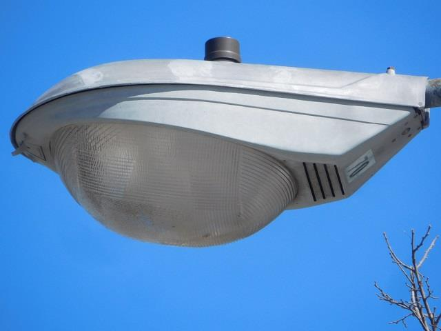 History of street lighting : General Electric M1000 (700–1000 watts) 1978-1987 redesign